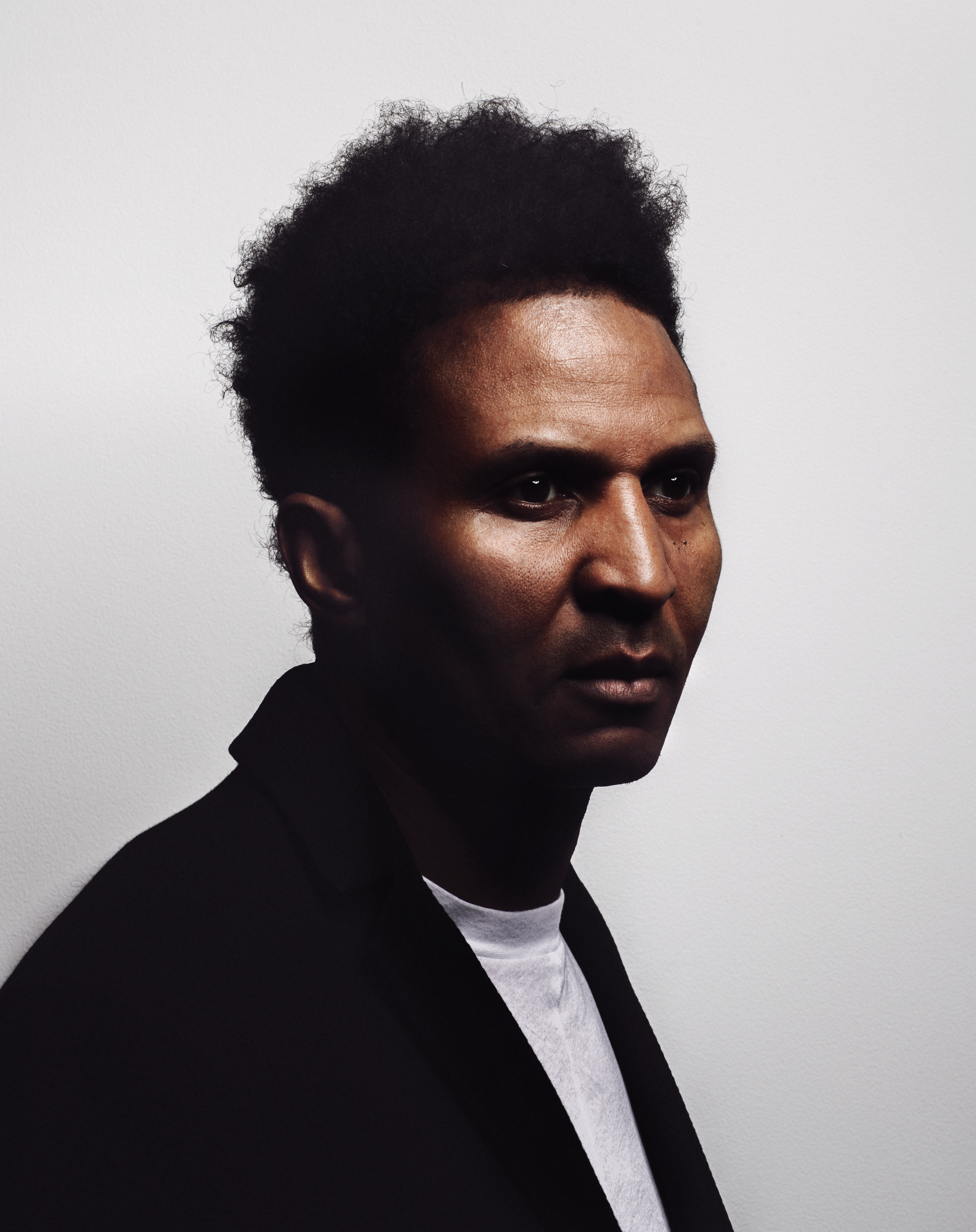 DJ Krust